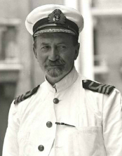 Lieutenant-Colonel Thomas Edward Lawrence (1888 - 1935, left); D.G. Hogarth (1862 - 1927) and Lieutenant-Colonel Dawnay, at the Arab Bureau of Britain's Foreign Office, Cairo, May 1918.